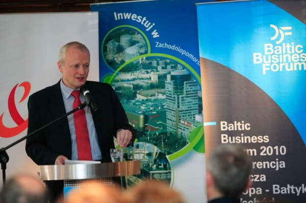 Jacek Piechota, Baltic Business Forum